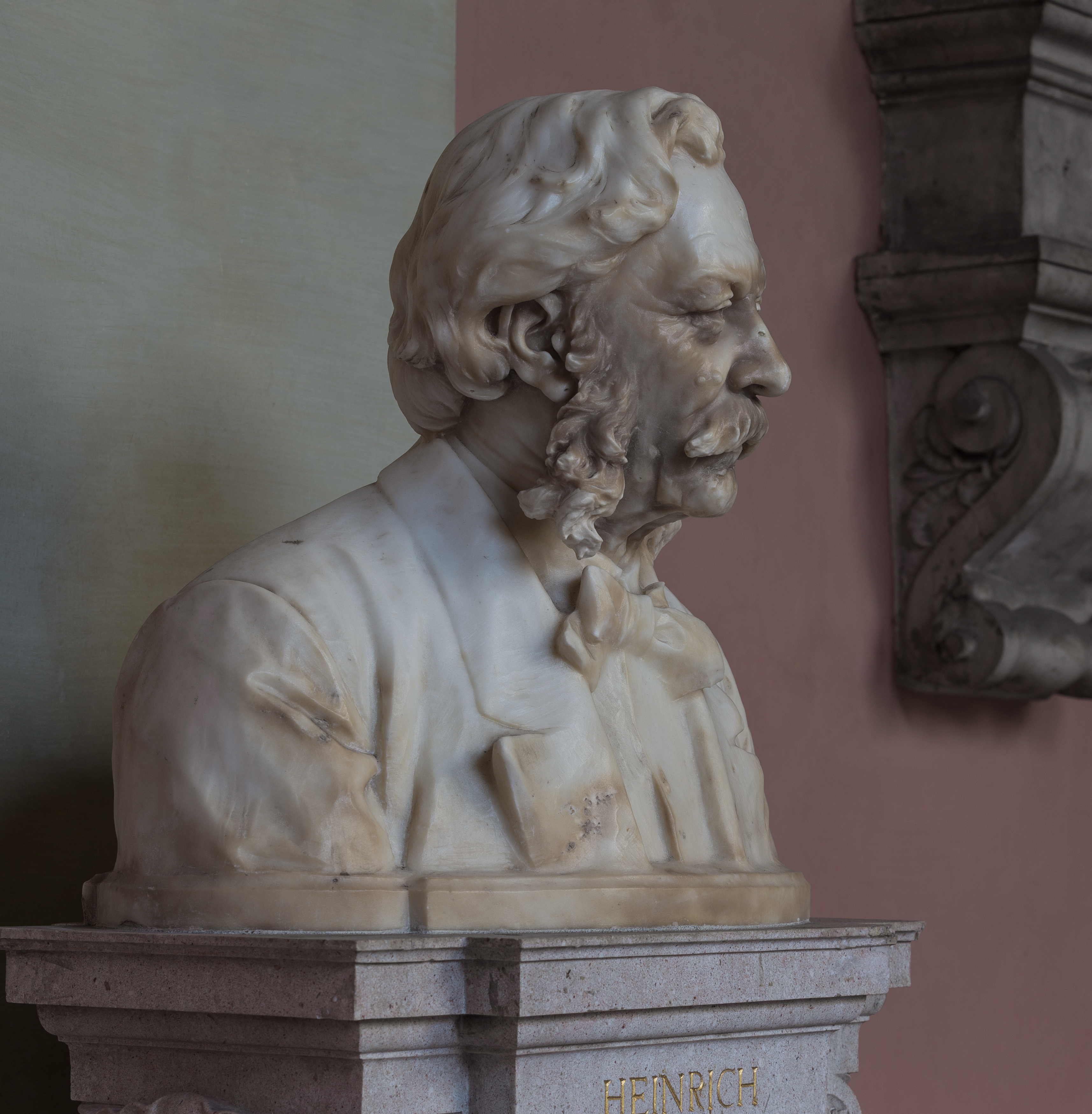 Heinrich von Bamberger (1822-1888), bust (marble) in the Arkadenhof of the University of Vienna, (Maisel# 70). Artist: Richard Kauffungen (1854-1942), unveiled 1899